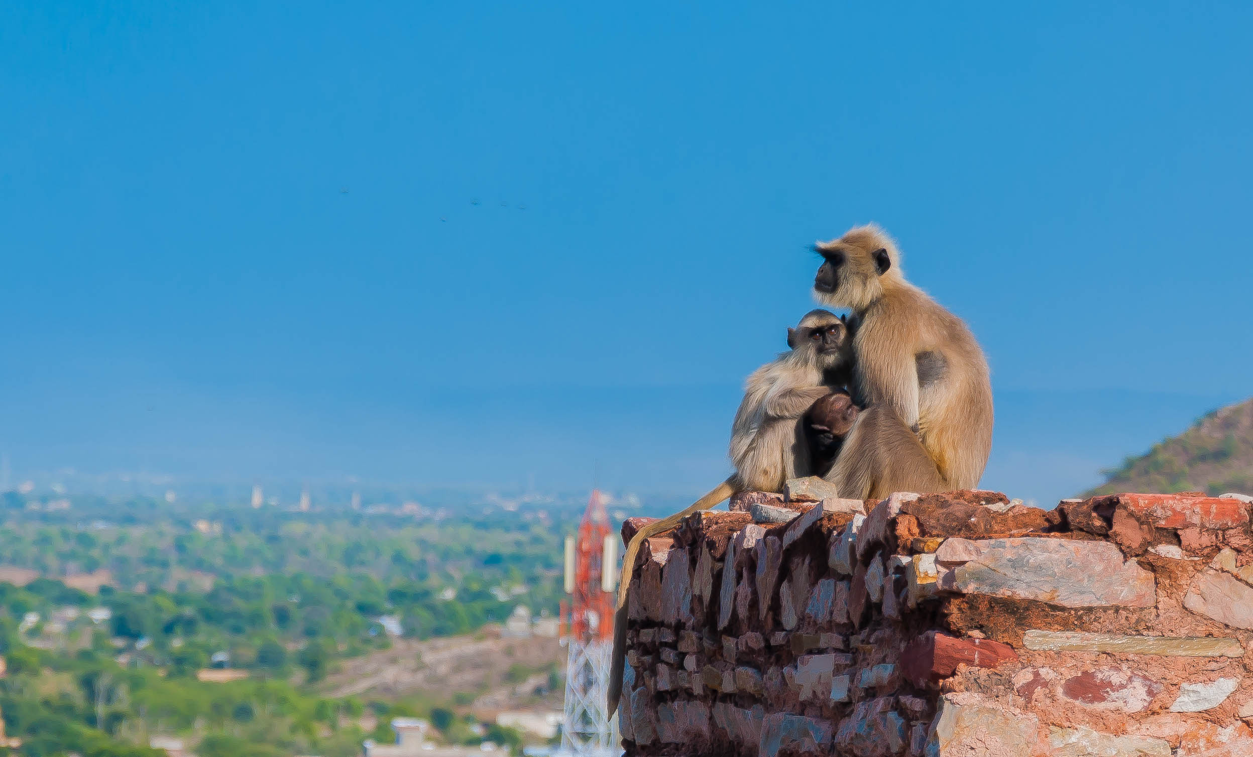 MOTHER GREY LANGUR WITH HER YOUNG ONES